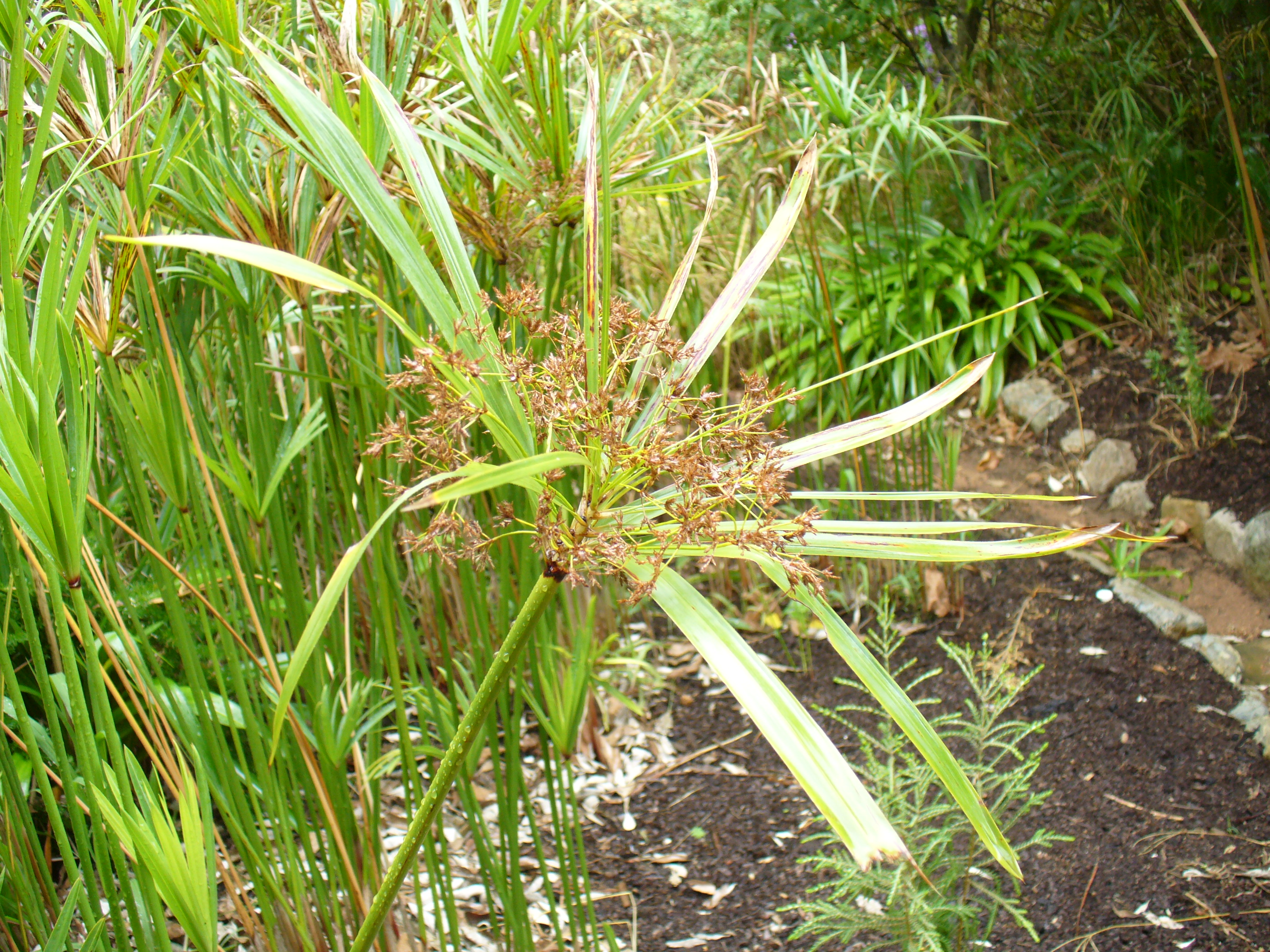 Matjiesgoed / mat sedge - used by the Nama to make beehive huts, sleeping mats, baskets , ropes and thatch. Kirstenbosch Gardens, Cape Town